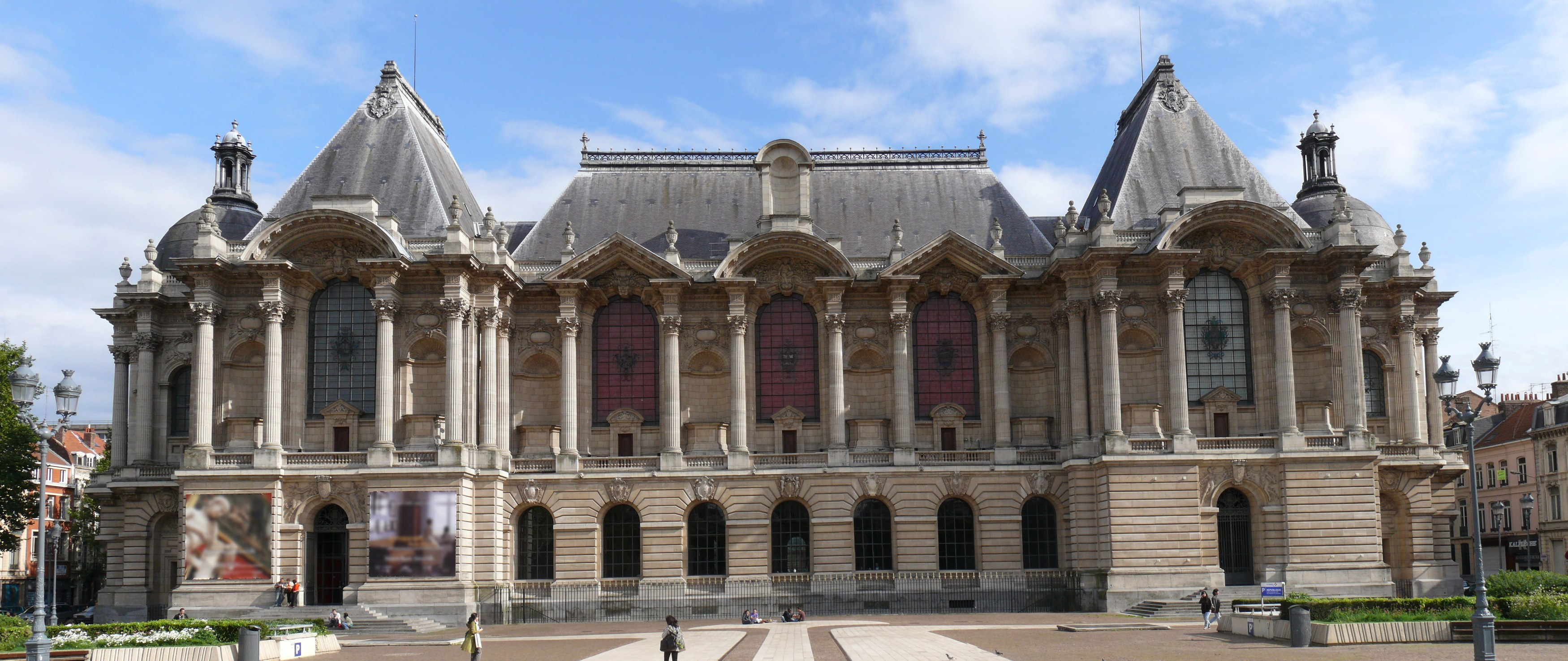 The "Palais des Beaux-Arts de Lille", in September 2008. Image made assembling 2 photos with Hugin. The posters on the left were blurred for legal reasons.